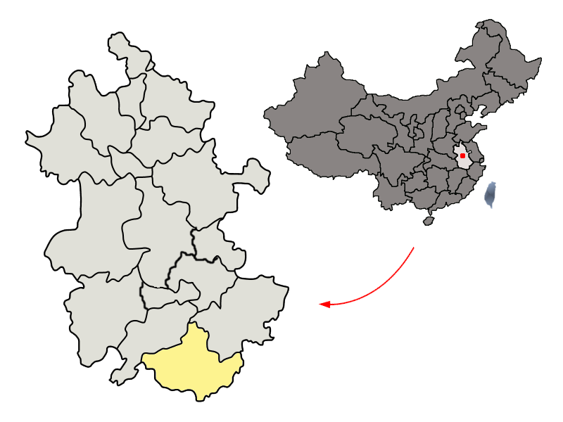 Location of Huangshan Prefecture (yellow) within Anhui Province of China Map drawn in december 2007 using various sources, mainly : Anhui Province administrative regions GIS data: 1:1M, County level, 1990 Anhui Counties map from